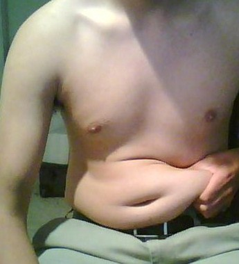 Excess adipose tissue around a male's mid-section.